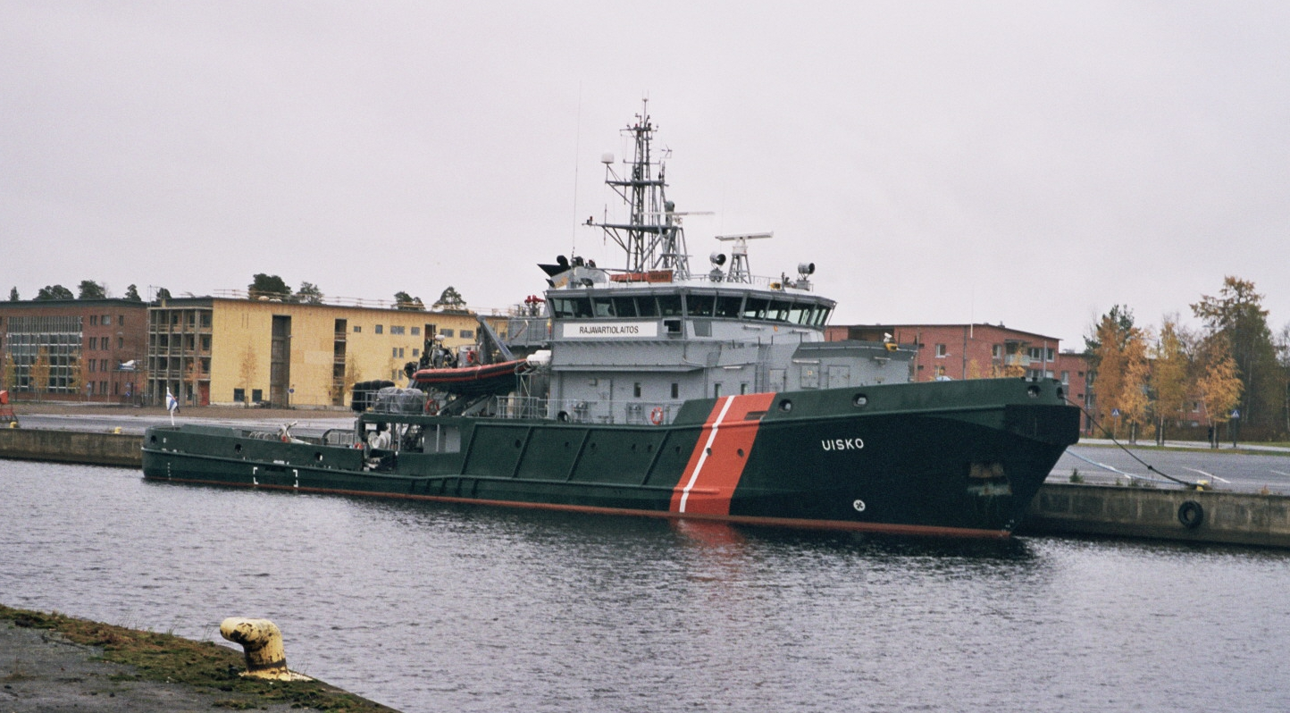 VL Uisko, one of the ships of the Finnish Border Guard, in the old harbour of Toppila in Oulu, Finland.